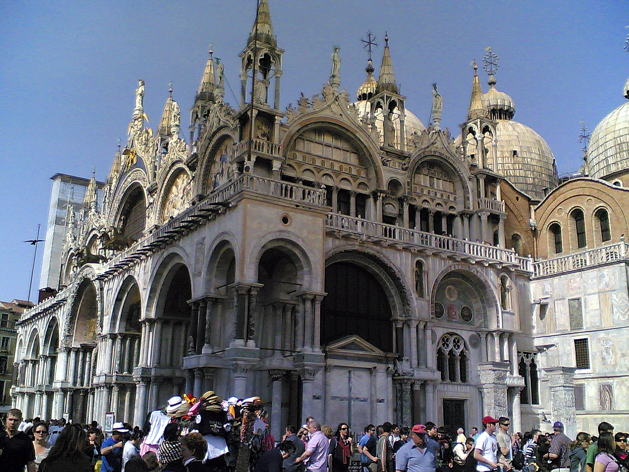 St. Mark's Basilica Venice